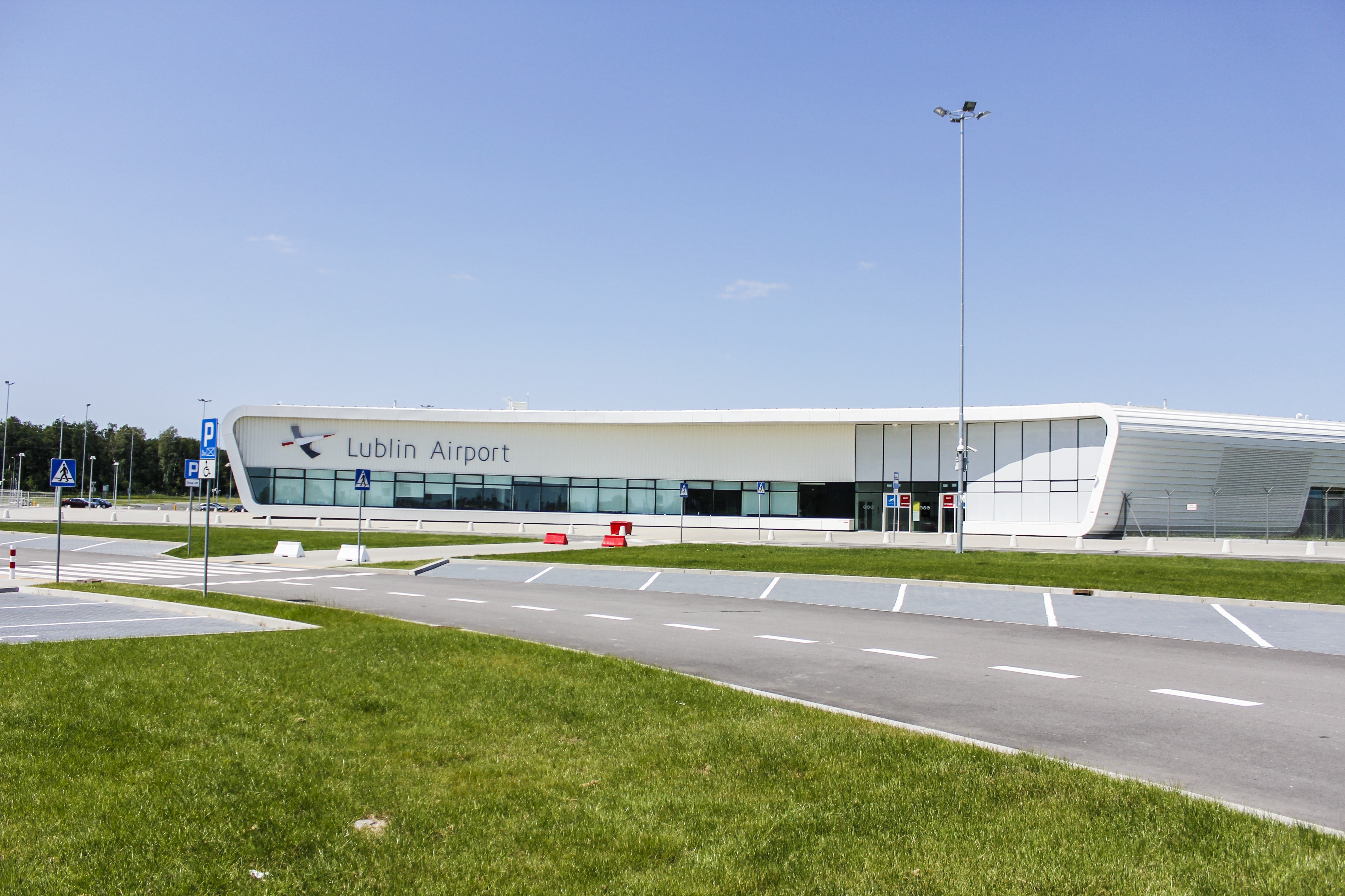 LUZ airport